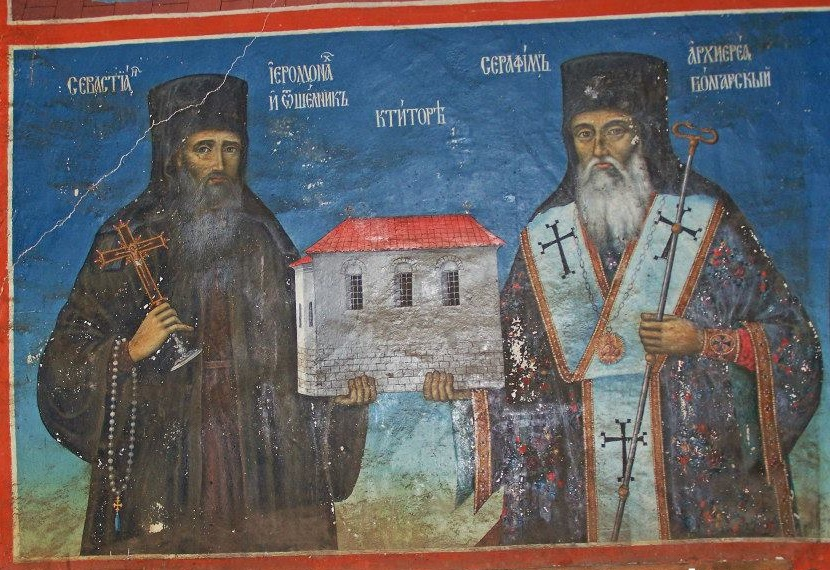 Assumption of Mary Church in Pchelina Ktetors